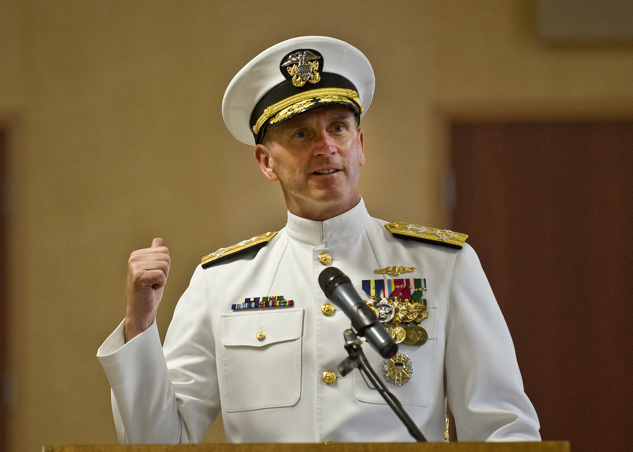 Chief of U.S. Naval Operations Adm. Jonathan Greenert speaks during the retirement and change of command ceremony for Vice Adm. Kevin McCoy in Washington, D.C., June 7, 2013. McCoy transferred command of Naval Sea Systems Command to Vice Adm. William Hilarides.